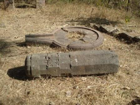 Arn sati column according to the common history which is now poised to be destroyed.